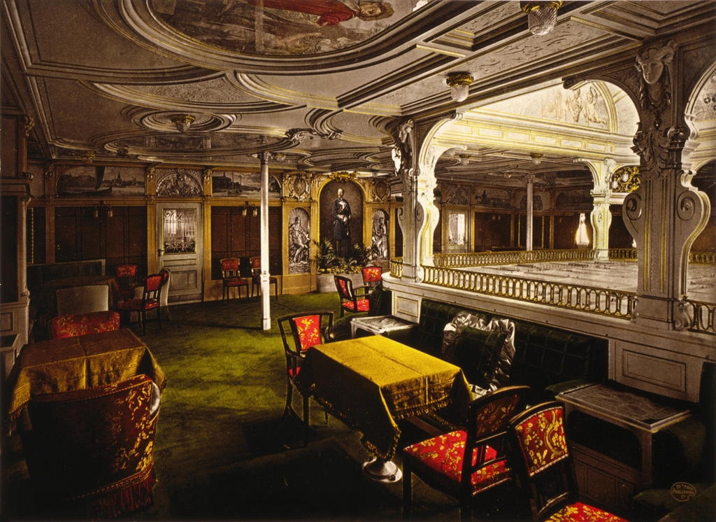 North German Lloyd steamer Kaiser Wilhelm II., parlor